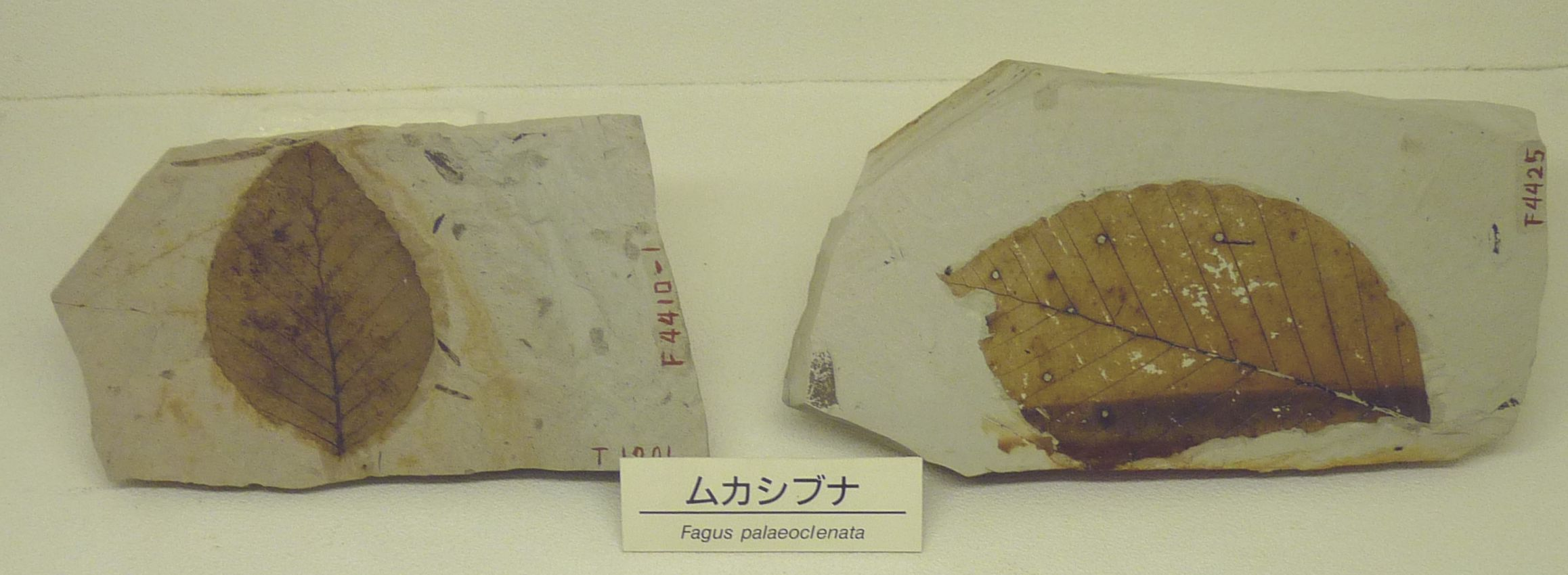 Fagus palaeocrenata at Osaka Museum of Natural History